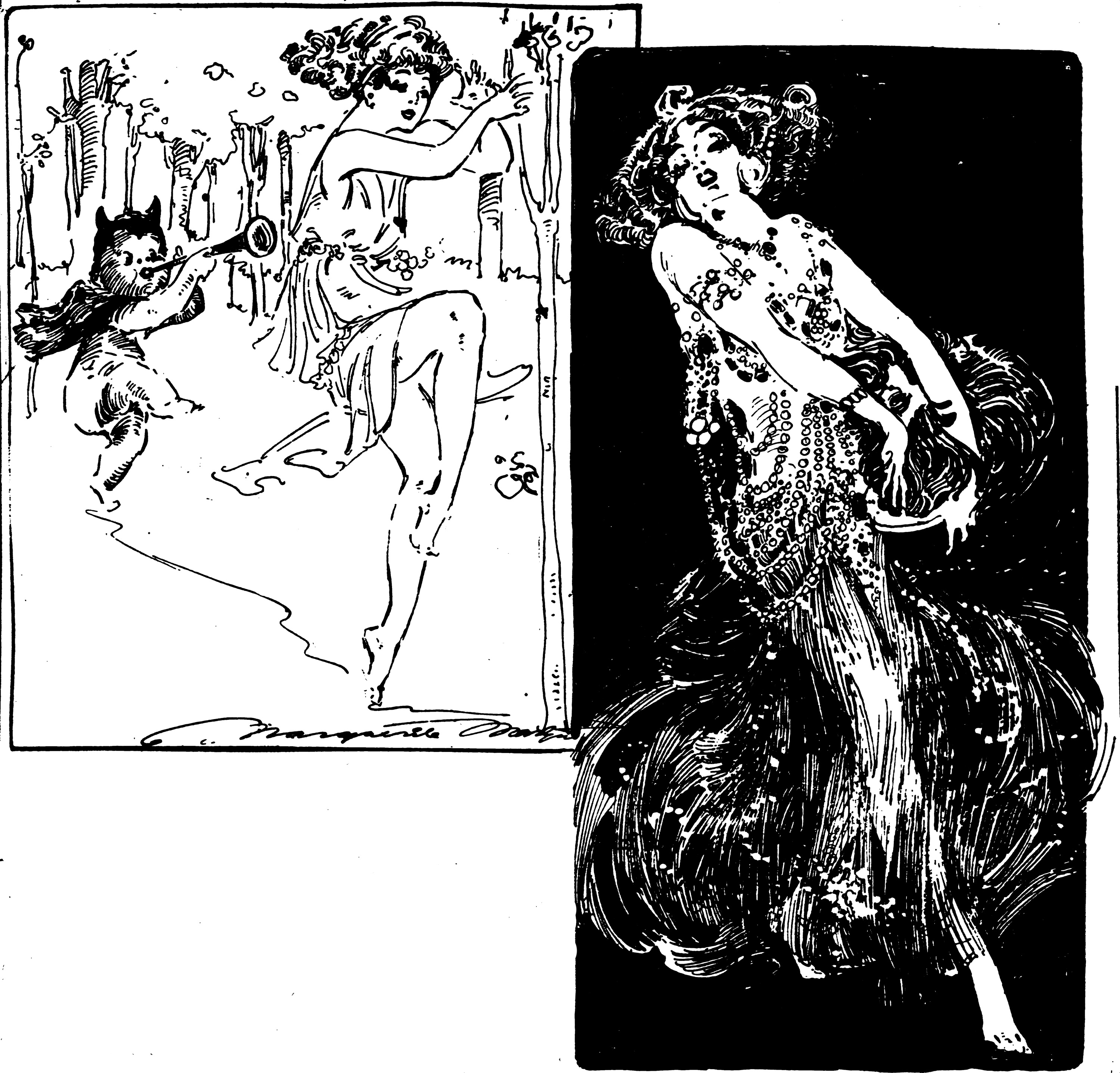 Two sketches of Gertrude Hoffman, drawn by Marguerite Martyn, and published in the St. Louis Post-Dispatch, January 7, 1909